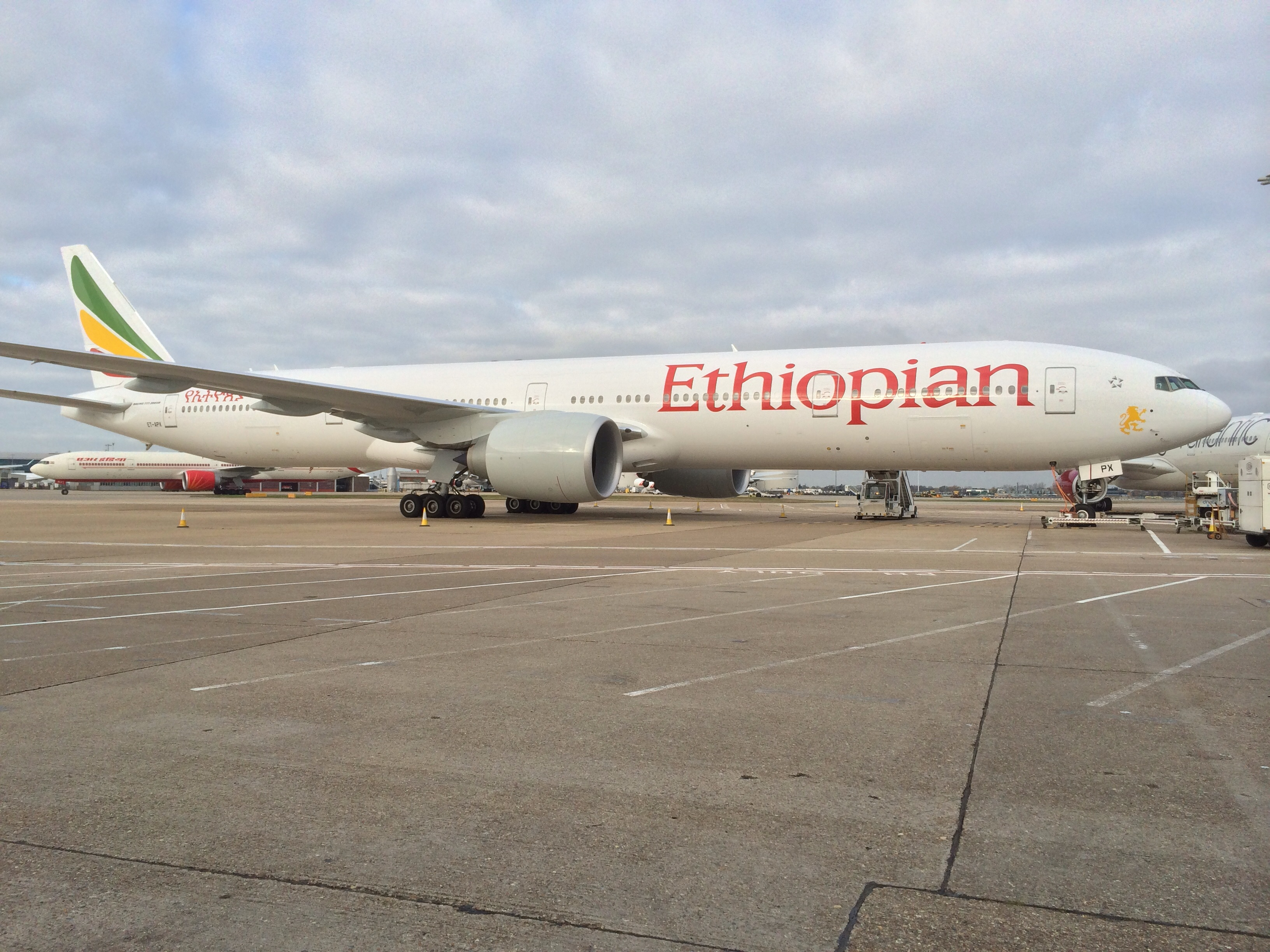 At London Heathrow Airport